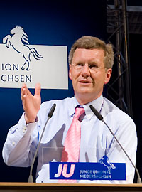 Christian Wulff (born June 19, 1959 in Osnabrueck) is a German politician (Christian Democratic Union of Germany) and Premier of Lower Saxony.